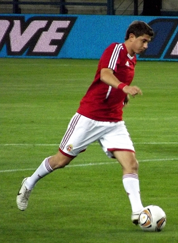 Maor Melikson